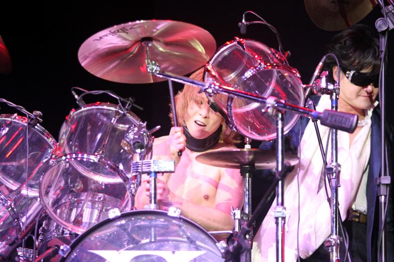 The photo was taken on X Japan's concert in São Paulo, Brasil, in 2011, by Julio Fugimoto.